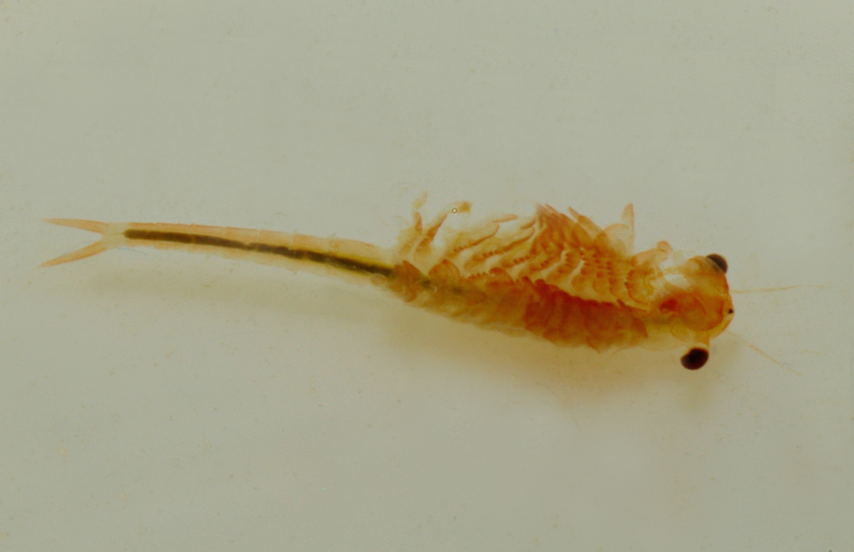 A species of Fairy shrimps (Anostraca), Eubranchipus grubii. This is a post-larval/immature/juvenile stage of about 10 mm length.